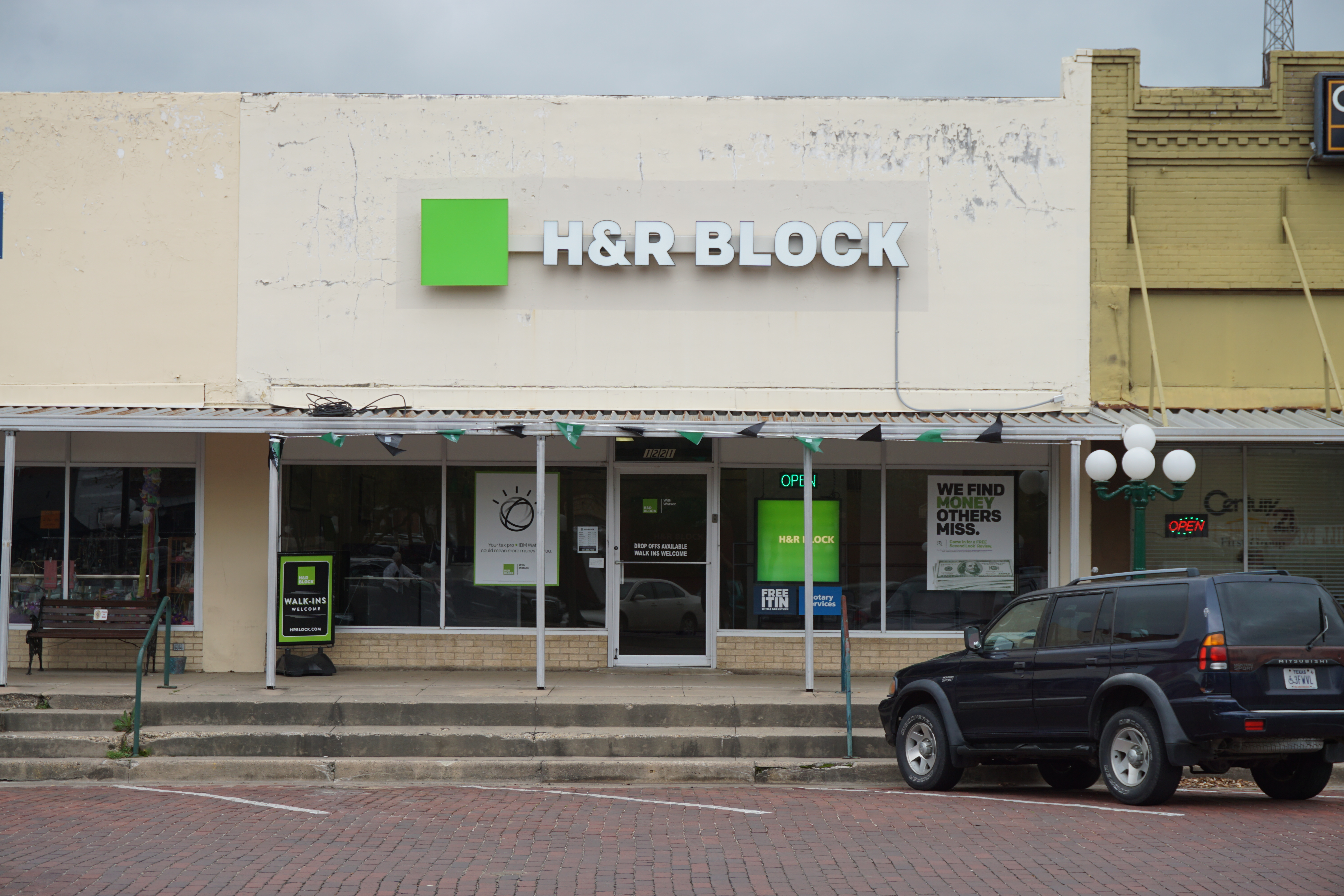 H&R Block in Commerce, Texas (United States).